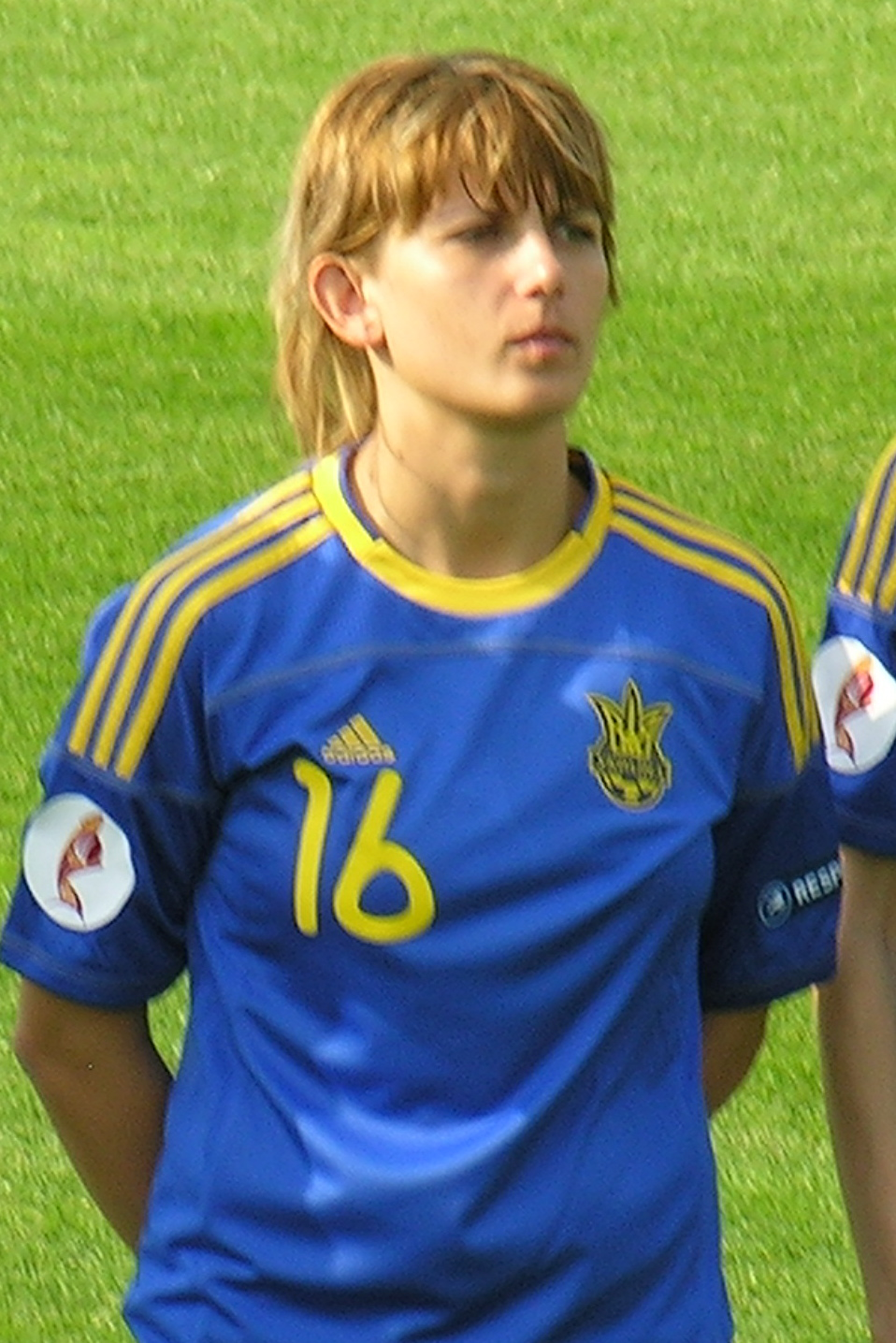 Alla Lyshafay Ukrainian international football player Event: Hungary-Ukraine 0-4 in Telki